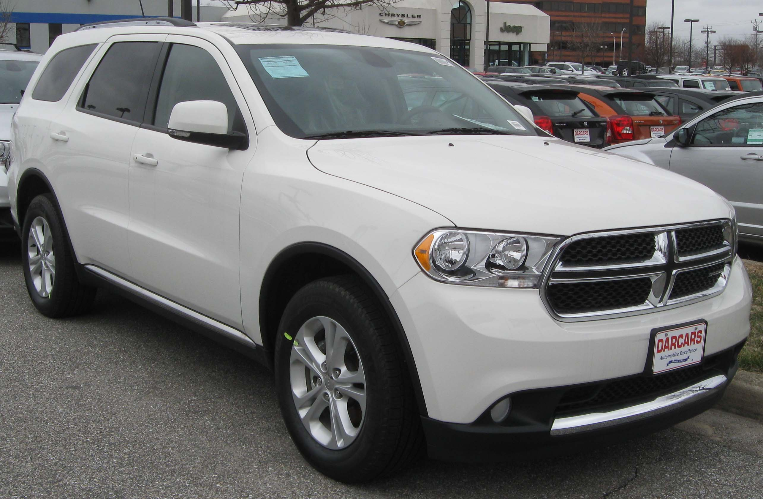 2011 Dodge Durango Crew photographed in Silver Spring, Maryland, USA.